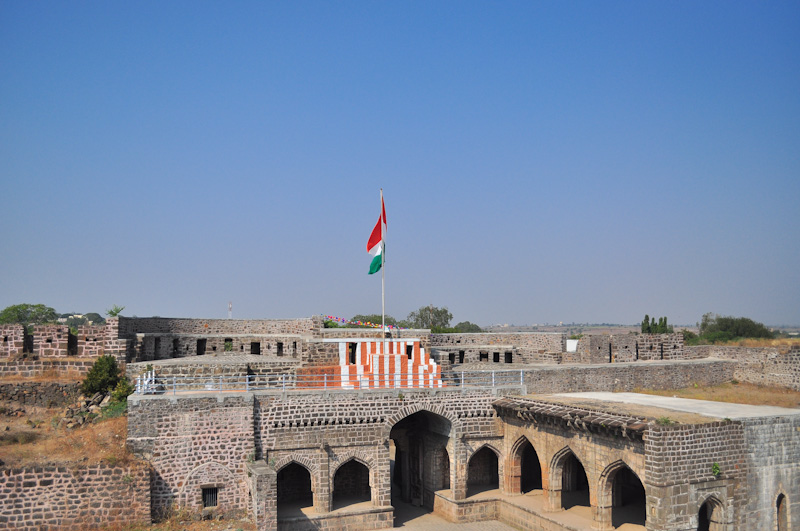 Hulmukh Darwaza of Naldurg fort from Inside.